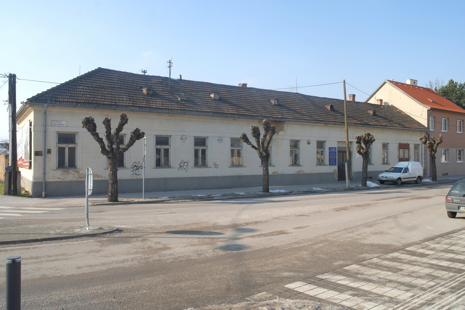 The original building of horse railway station, Holubyho street 1, Pezinok. Built in classical style with wooden platform in r. 1840. The first train the of horse railway Bratislava - Trnava arrived in Pezinok June 30th, 1841.